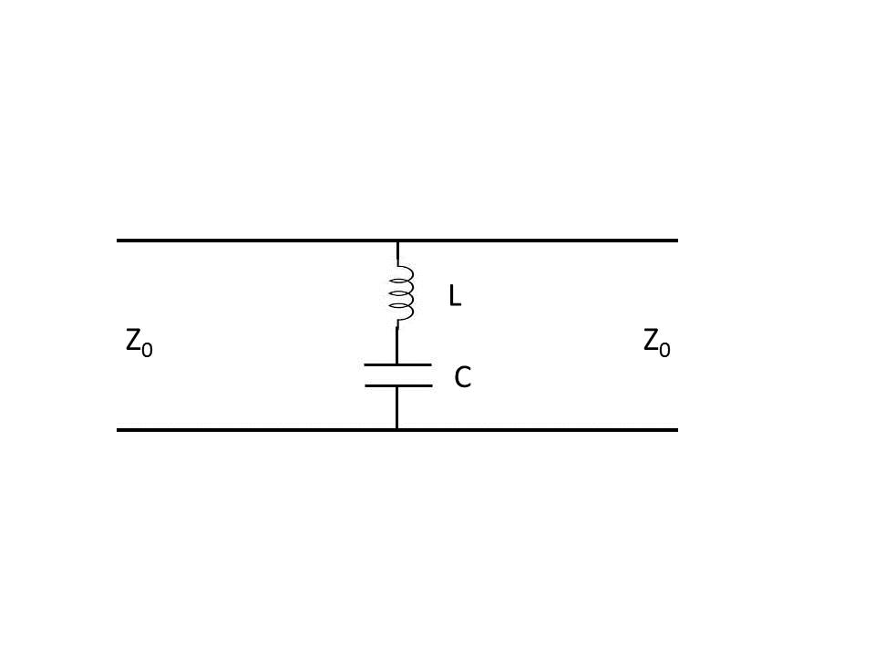 schematic of single-pole bandstop filter